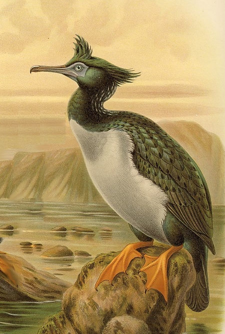 .Pitt Island Shag (Phalacrocorax featherstoni).